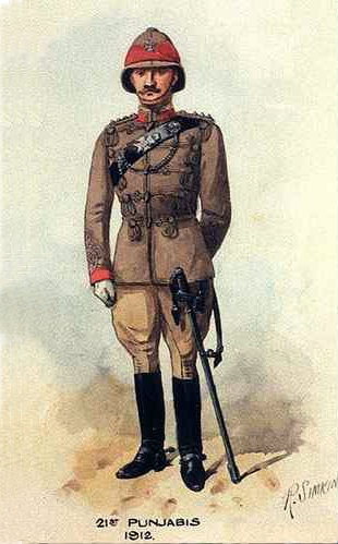 Officer of 21st Punjabis (now part of Punjab Regimental Centre, Pakistan Army). Illustration by Richard Simkin, 1912.